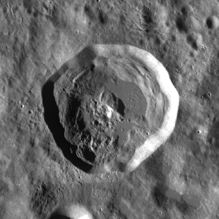 Stearns crater, on the far side of the moon. LRO Wide Angle Camera mosaic.